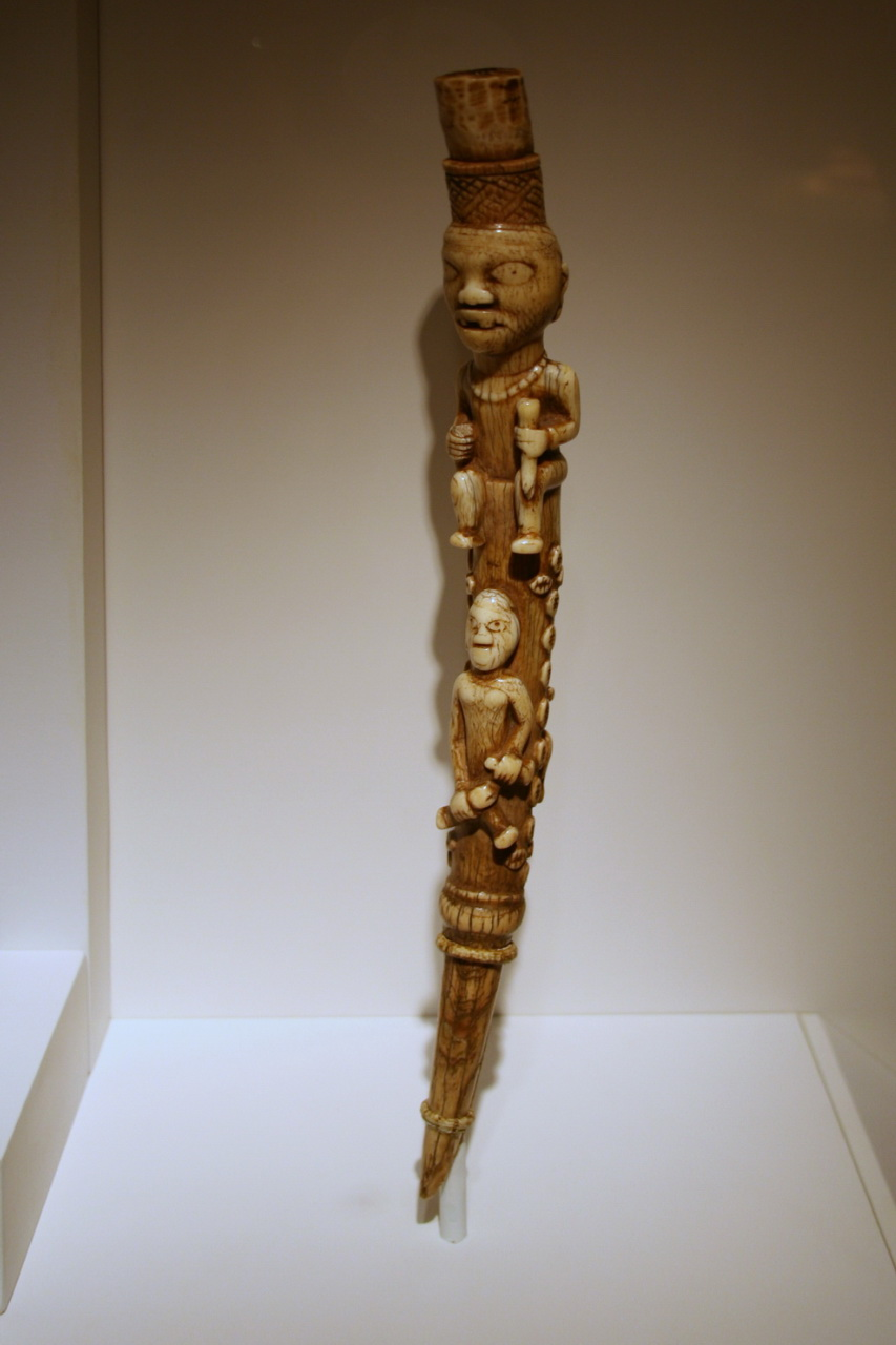 Flywhisk handle, Kongo peoples, Democratic Republic of the Congo, 19th century, Ivory Part of a ruler's regalia, this flywhisk handle once had a buffalo tail attached to its upper end. The depiction of a seated ruler with all his regalia further emphasized the status conveyed by the use of ivory. The female figure represents the support of the matrilineal line. The elephant carrying a rooster alludes to a Kongo myth in which an elephant carries the sons of the great Ne Kongo, founder of the Kongo kingdom. The row of small oval shapes represents cowrie shells, which were once used as currency.